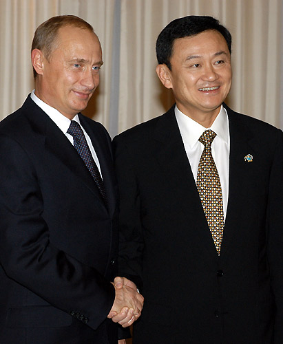 BANGKOK. President Putin with Thai Prime Minister Thaksin Shinawatra.